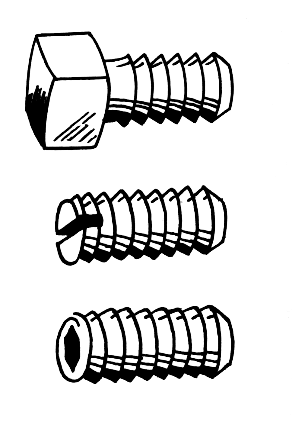 Line art drawing of three set screws.